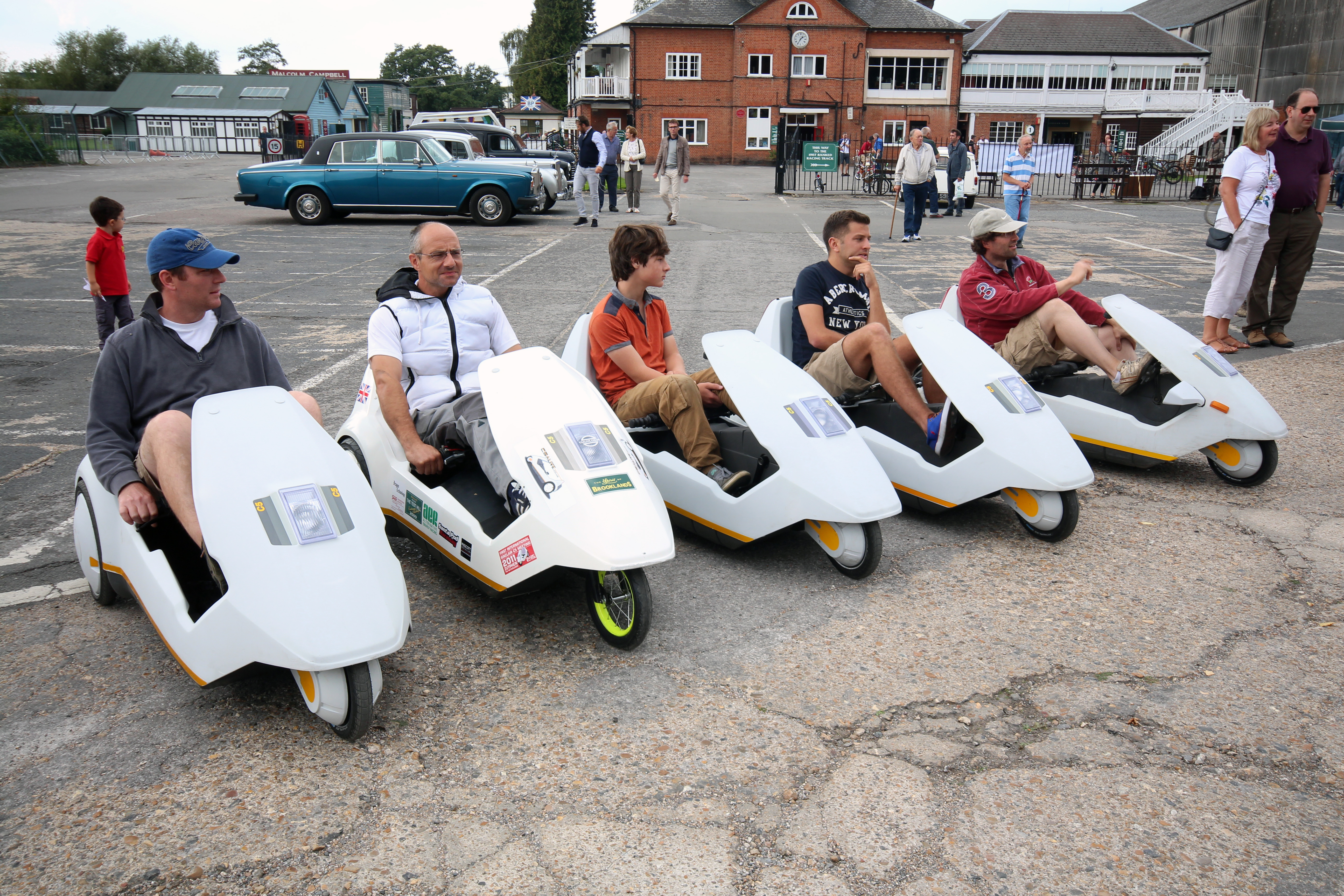 Rally by C5 Alive members at Brooklands Museum, Weybridge